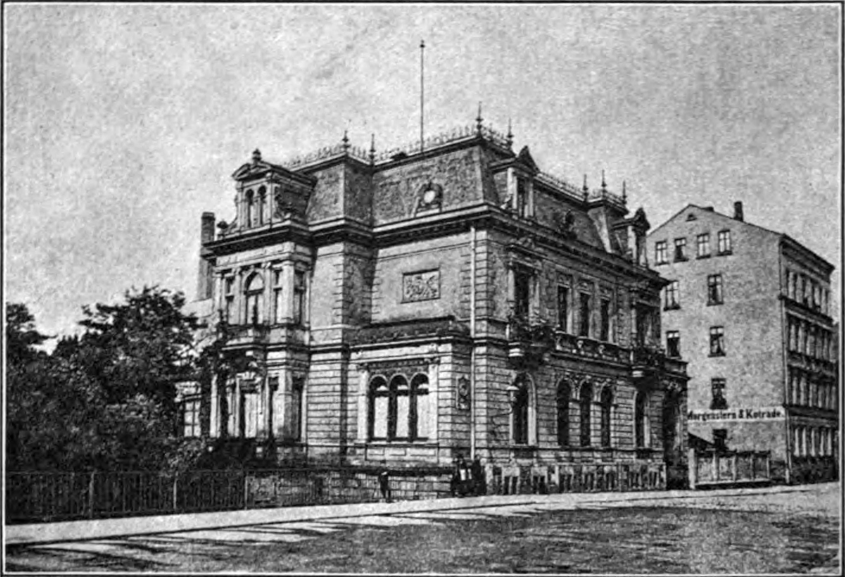 Villa d' Avignon, Friedrich-Ebert-Straße 77 in Leipzig, entworfen von Arwed Roßbach.JPG